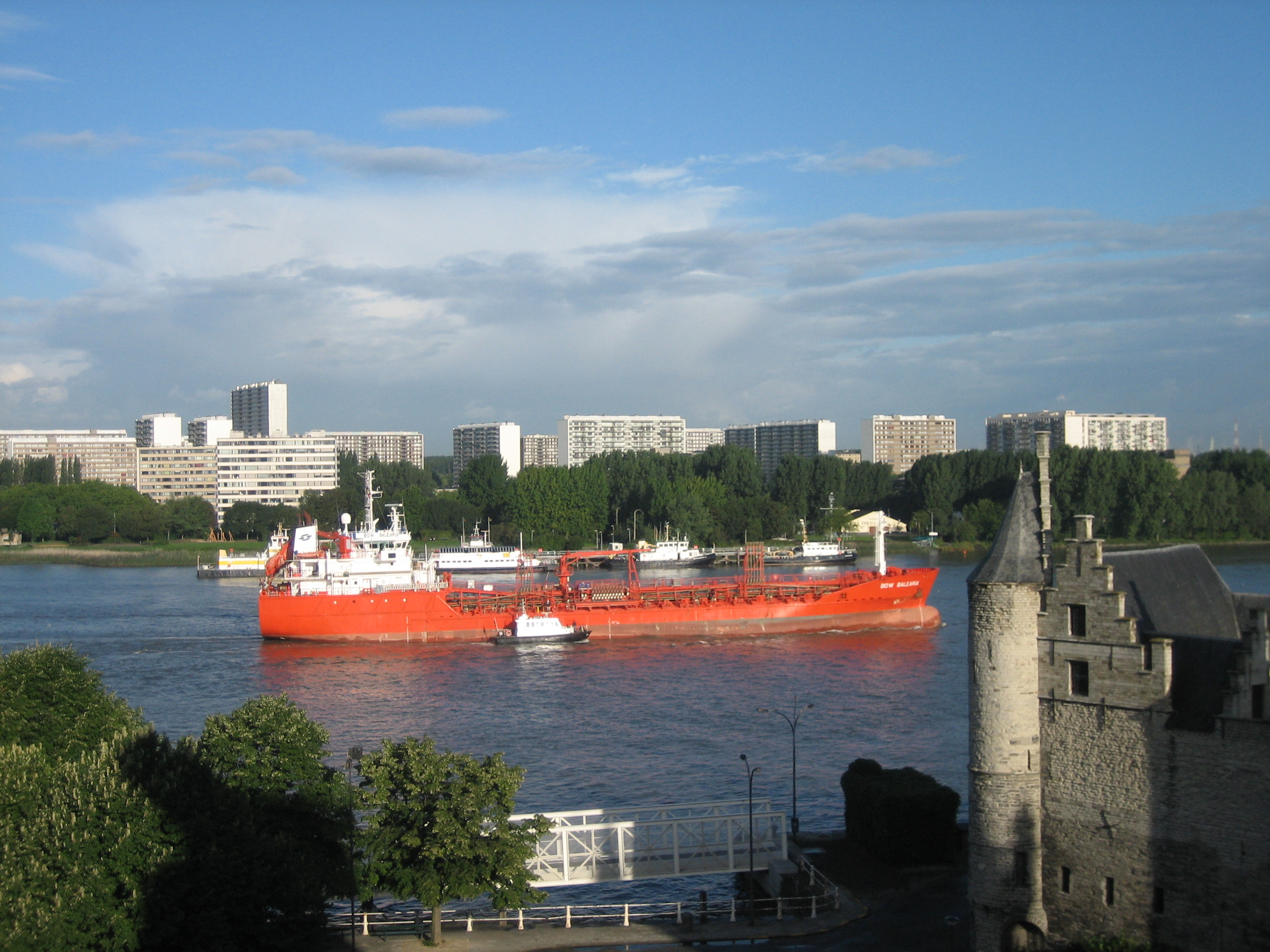 Bow Balearia, chemical tanker belonging to river Scheldt, Antwerp IMO Number: 9147461 MMSI Number: 636090279 Callsign: ELVY6 Length: 99 m Beam: 16m